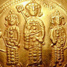 ROMANUS IV. 1067-1071 AD. AV Histamenon Nomisma (27mm, 4.32 gm). Constantinople mint. Michael standing facing, holding labarum and akakia, flanked by Constantius and Andronicus, each holding globus cruciger and akakia, standing on footstools. DOC III 1.9; SB 1859. EF.